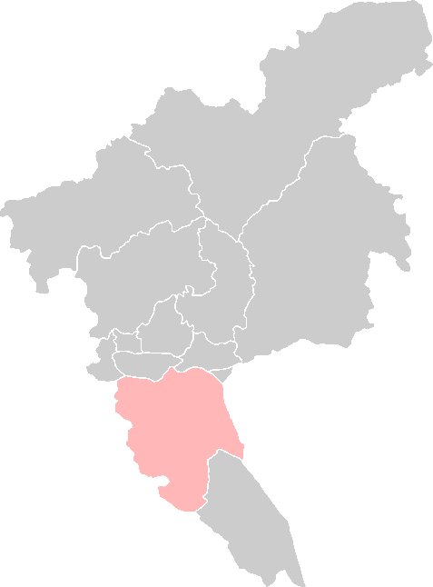 A Blank Map of Guangzhou Map